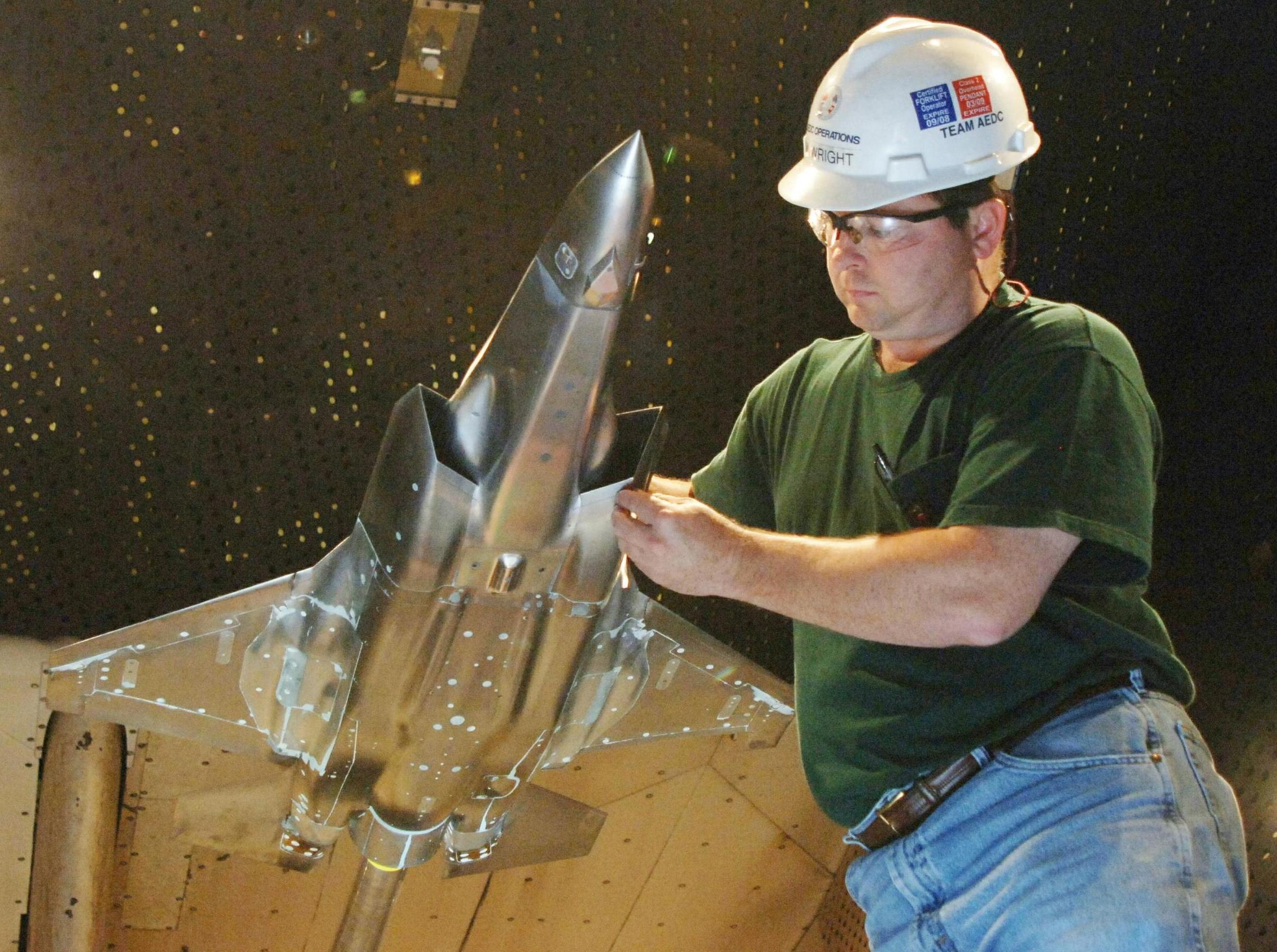 High Resolution Photograph of the F-35 wind tunnel model. Tim Wright examines an F-35 LIghtning II Joint Strike Fighter model in the Arnold Engineering Development Center's 16-foot transonic wind tunnel at Arnold Air Force Base, Tenn. The information from testing will go into a database to refine and validate the aircraft designs for flight testing.